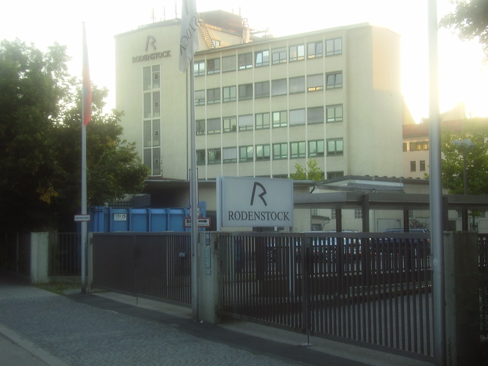 Rodenstock in Munich